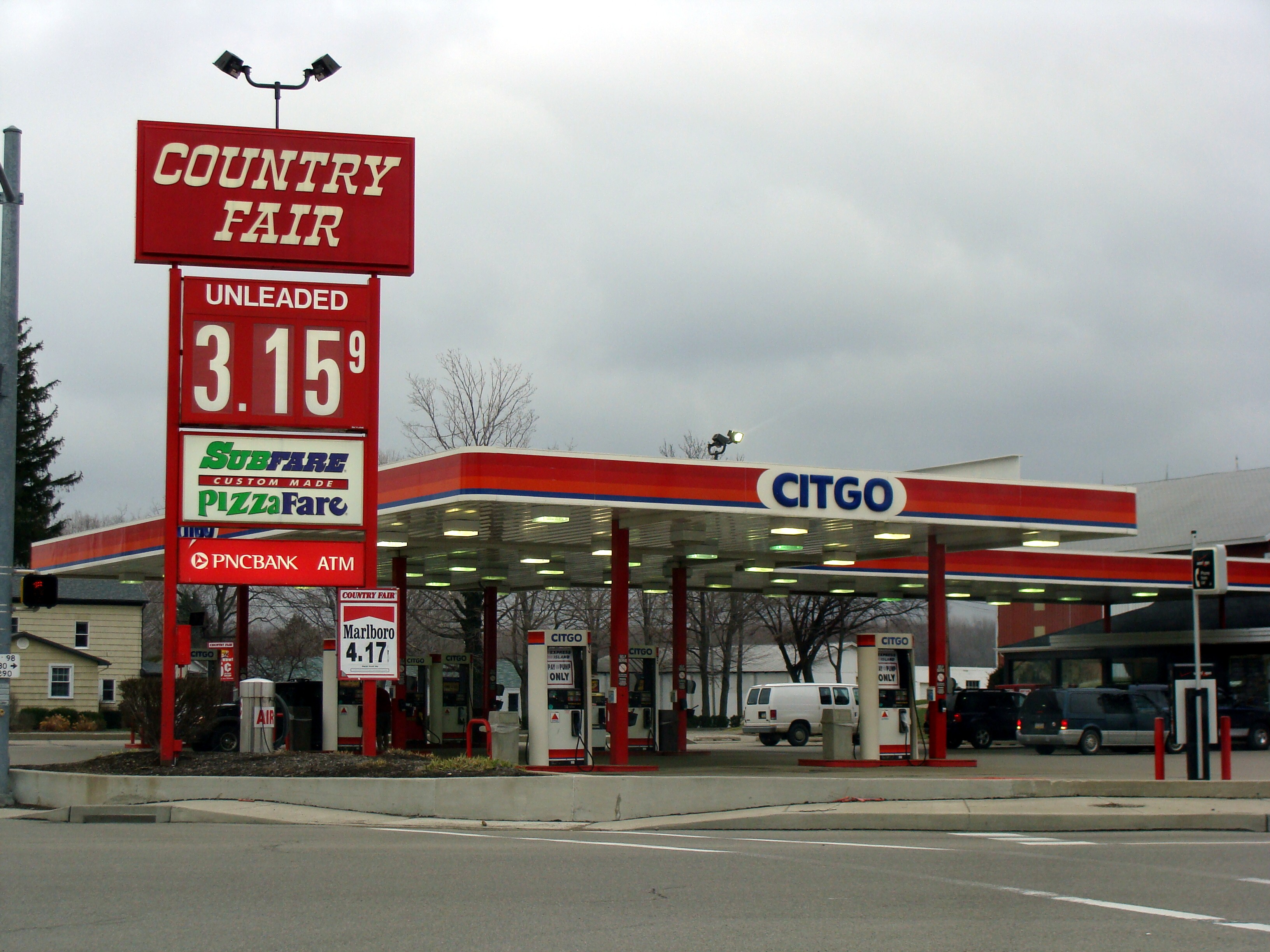 A Country Fair/Citgo gas station at the intersection of U.S. Route 20 and Pennsylvania Route 98 in Fairview Township in Erie County, Pennsylvania.